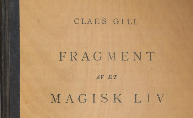 Detail from the book cover of "Fragment av et magisk liv" by the Norwegian poet Claes Gill